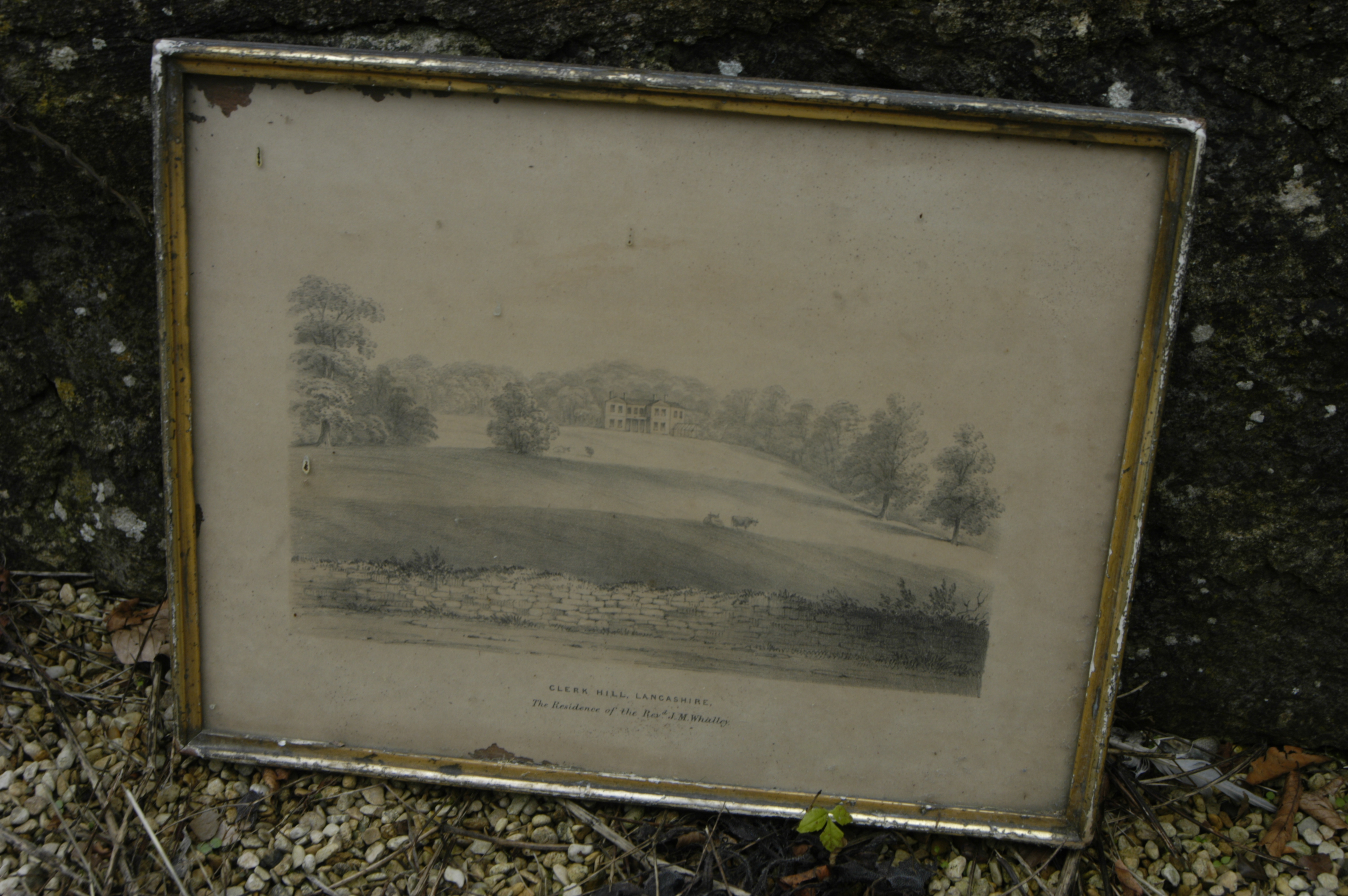 Photo (by me, R. de Salis, Rodolph (talk) 22:42, 30 August 2015 (UTC)) of a print of Clerk Hill, Lancashire, residence of the Rev. John Master Whalley (died 1861), MA, rector of Slaidburn.